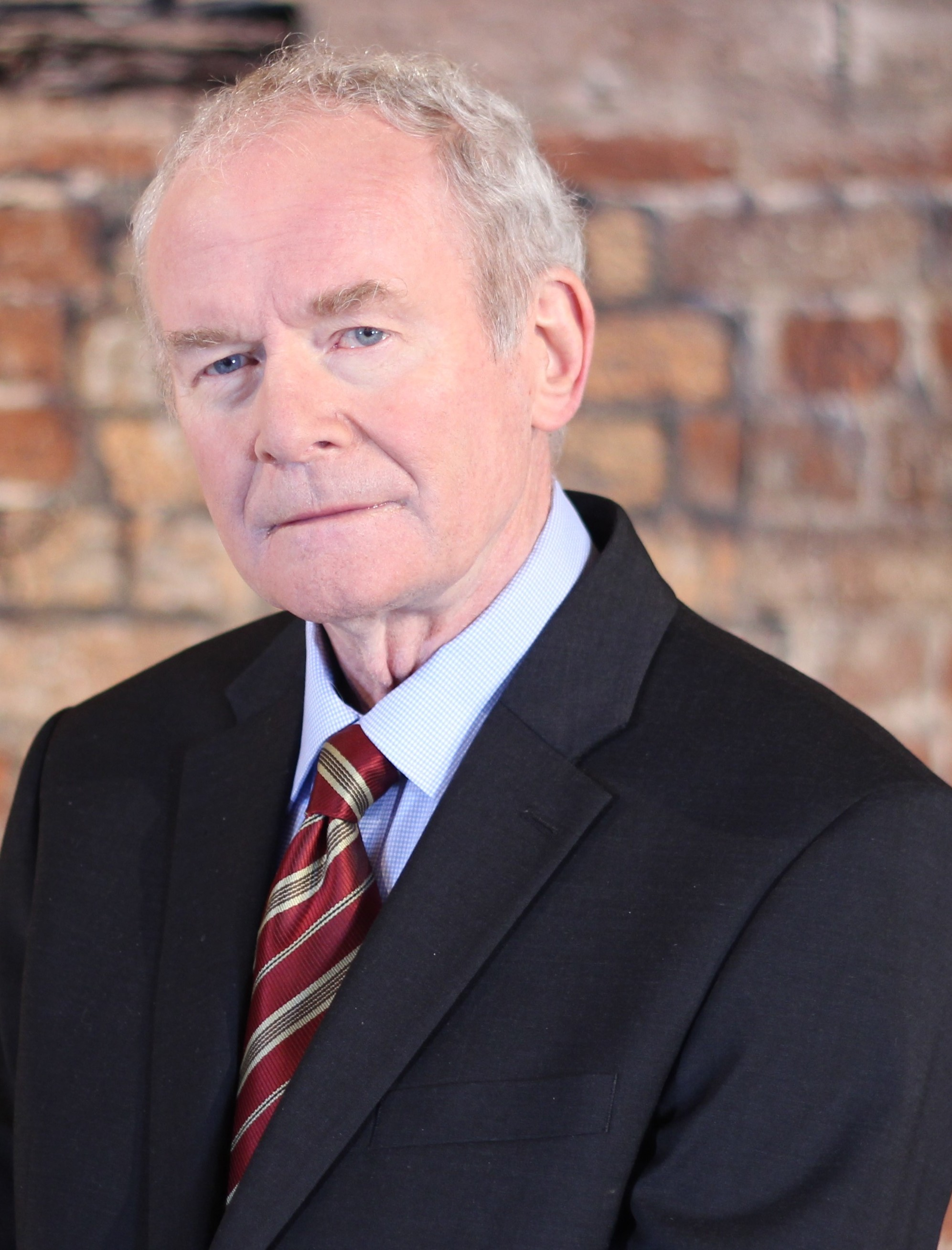 Cropped image of Martin McGuinness, an Irish politician.